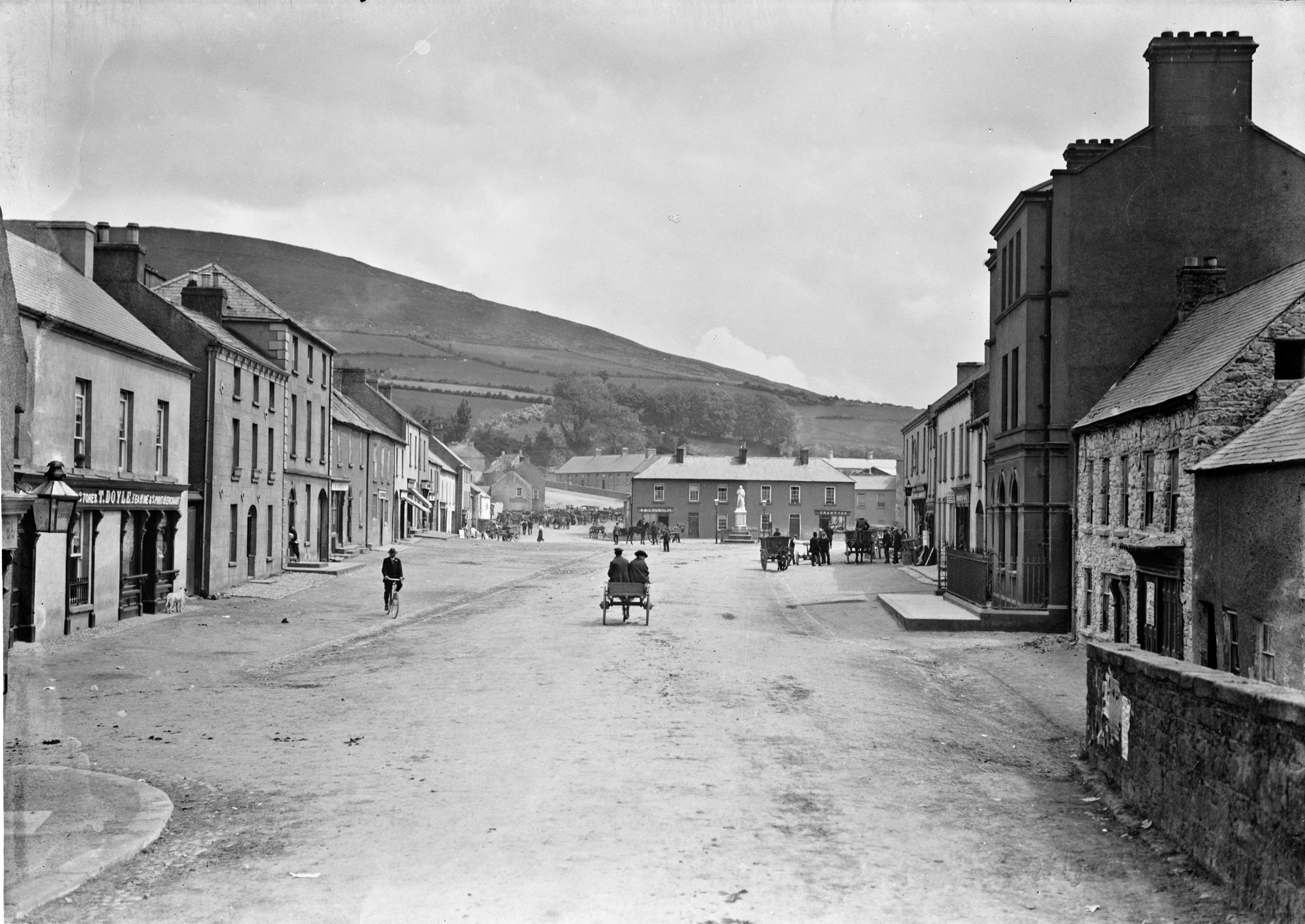 A fine shot today from the Eason Collection with old forms of transport occupying a broad square but with perhaps a crowd(?) in the distance. The catalogue date range puts this in the first quarter of the 20th century, and the information that [/photos/gnmcauley/ Niall McAuley] provides for the visible Michael Dwyer memorial corroborates that. Thanks to [/photos/beachcomberaustralia/ beachcomberaustralia] for sharing some extra detail on Michael Dwyer himself. We're not sure what has drawn the small crowd in the background by Chapel Hill, but the collection of carts suggests a mart on the east-side of Market Square... Photographer: Unknown Collection: Eason Photographic Collection Date: Between 1900 - 1939 NLI Ref: EAS_3856 You can also view this image, and many thousands of others, on the NLI’s catalogue at